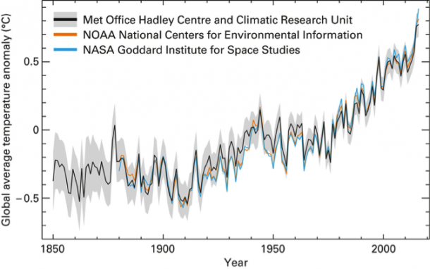 Global average temperature anomaly 1850 - 2016, World Meteorological Organization, Press Release 04/2017, 2017-03-21